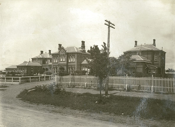 Goulburn Hospital - Front Elevation Dated: Date = 1889-01-1 Digital ID: 4346_a020_a020000232 Rights: We'd love to hear from you if you use our photos. Many other photos in our collection are available to view and browse on our website using Photo Investigator.